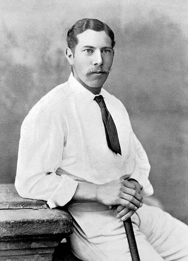 Sport, Cricket, Circa 1895, Charles William Wright, Nottinghamshire